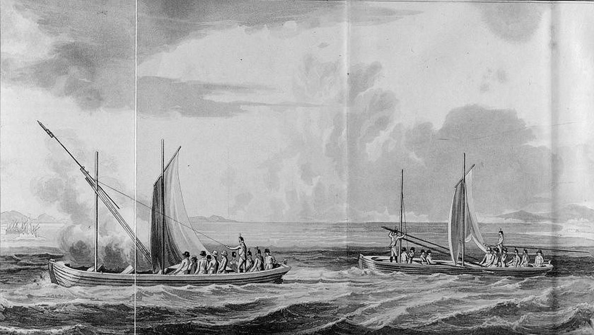 Illustration from the book: Congreve, William, Sir. (1827) A Treatise on the General Principles, Powers, and Facility of Application of the Congreve Rocket System. (London: Longman, Rees, Orme, Brown, and Green).